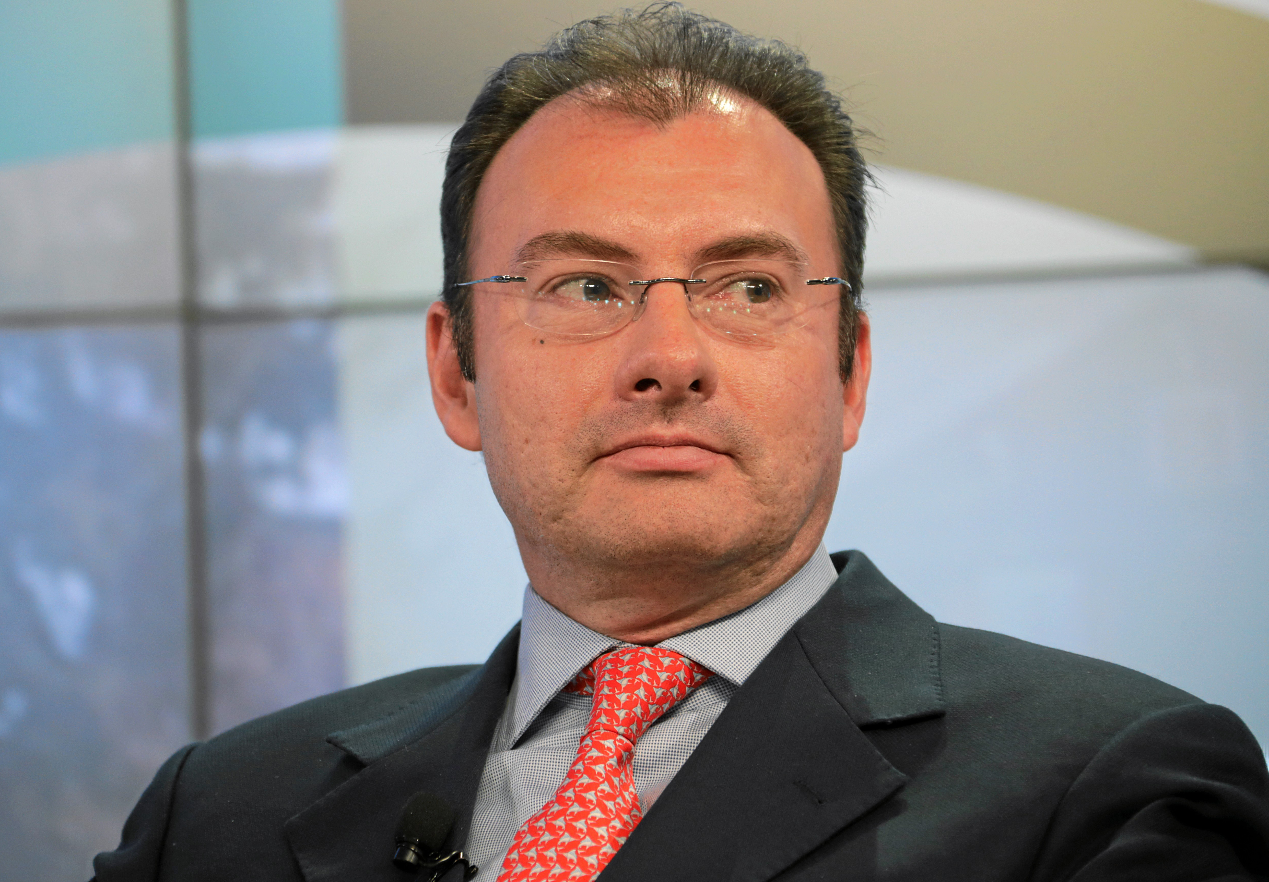 DAVOS/SWITZERLAND, 25JAN13 - Luis Videgaray Caso, Secretary of Finance and Public Credit of Mexico during the session 'Emerging Economies at a Crossroads' at the Annual Meeting 2013 of the World Economic Forum in Davos, Switzerland, January 25, 2013. . . Copyright by World Economic Forum. . Remy Steinegger